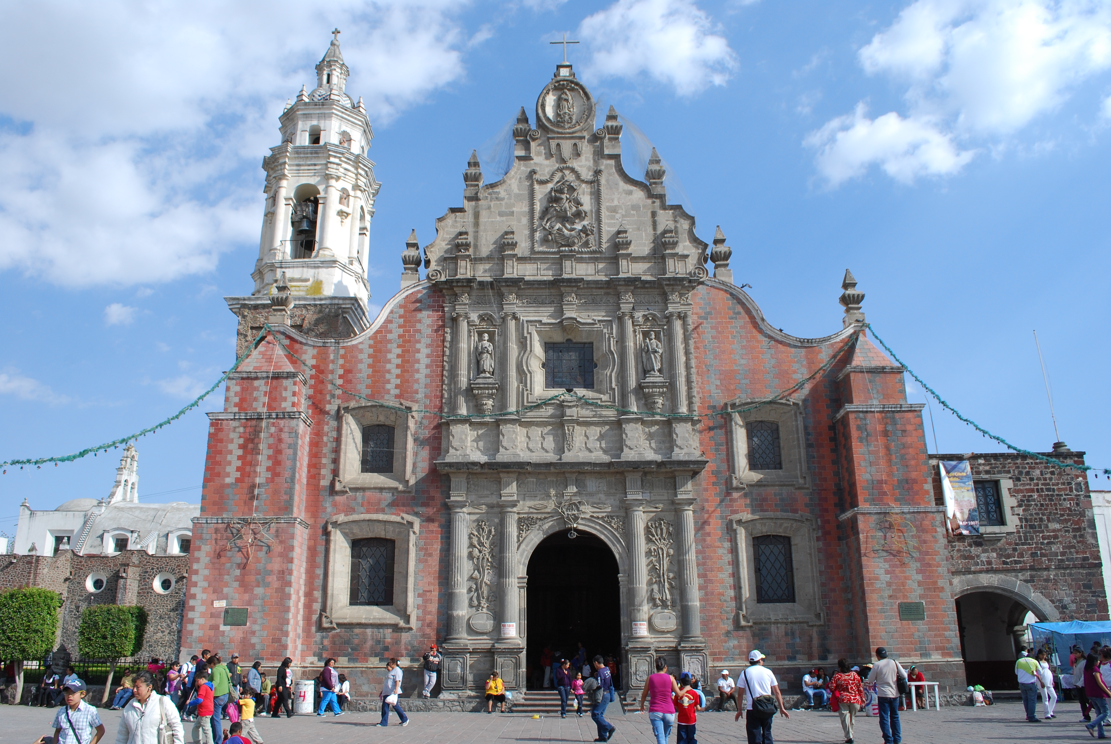 Facade of the parish church of Chalco de Diaz Covarrubias, Mexico State, Mexico